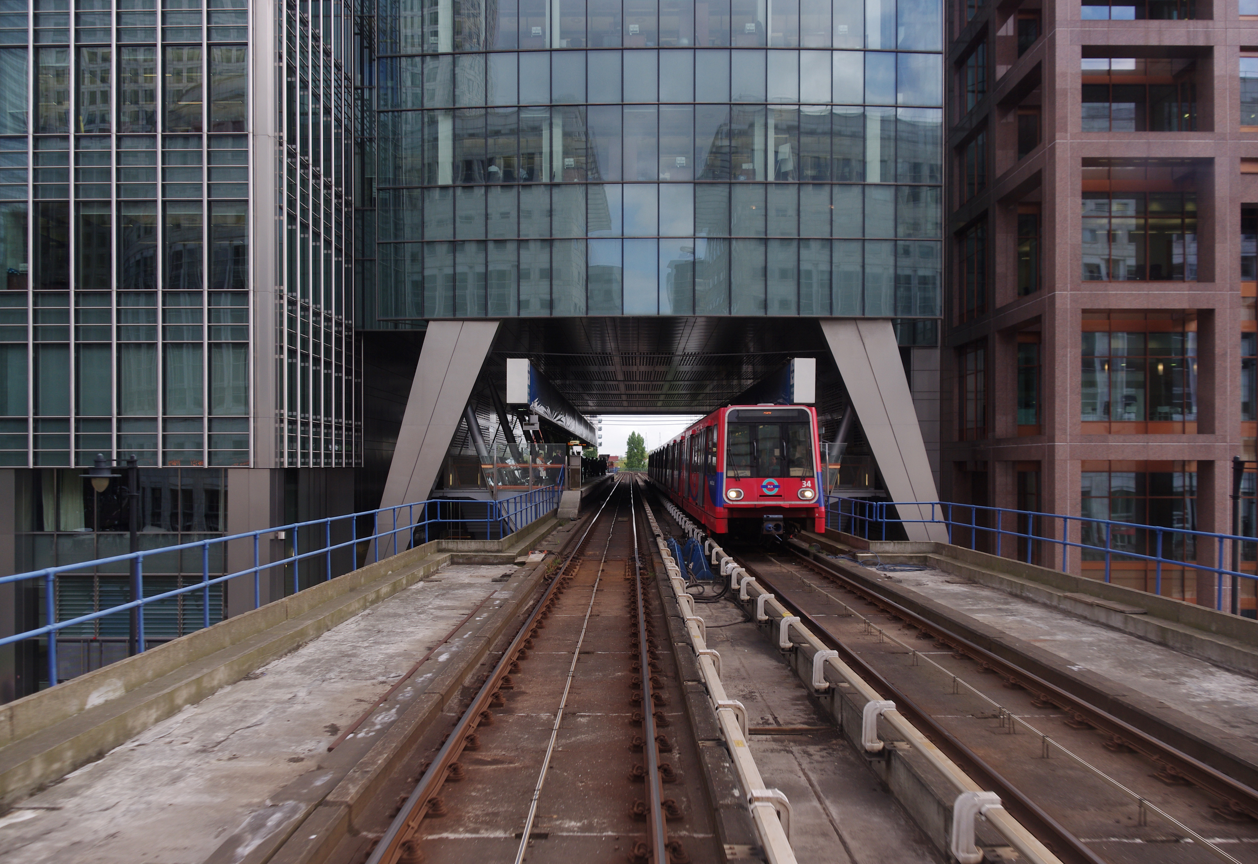 DLR type B90 train #34 departs Heron Quays heading north.